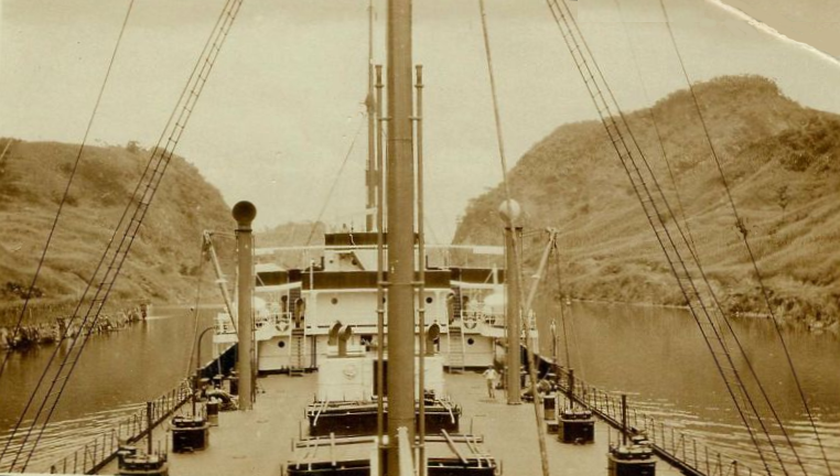 The German tanker Vistula front of the Culebra Cut, Panama 1931